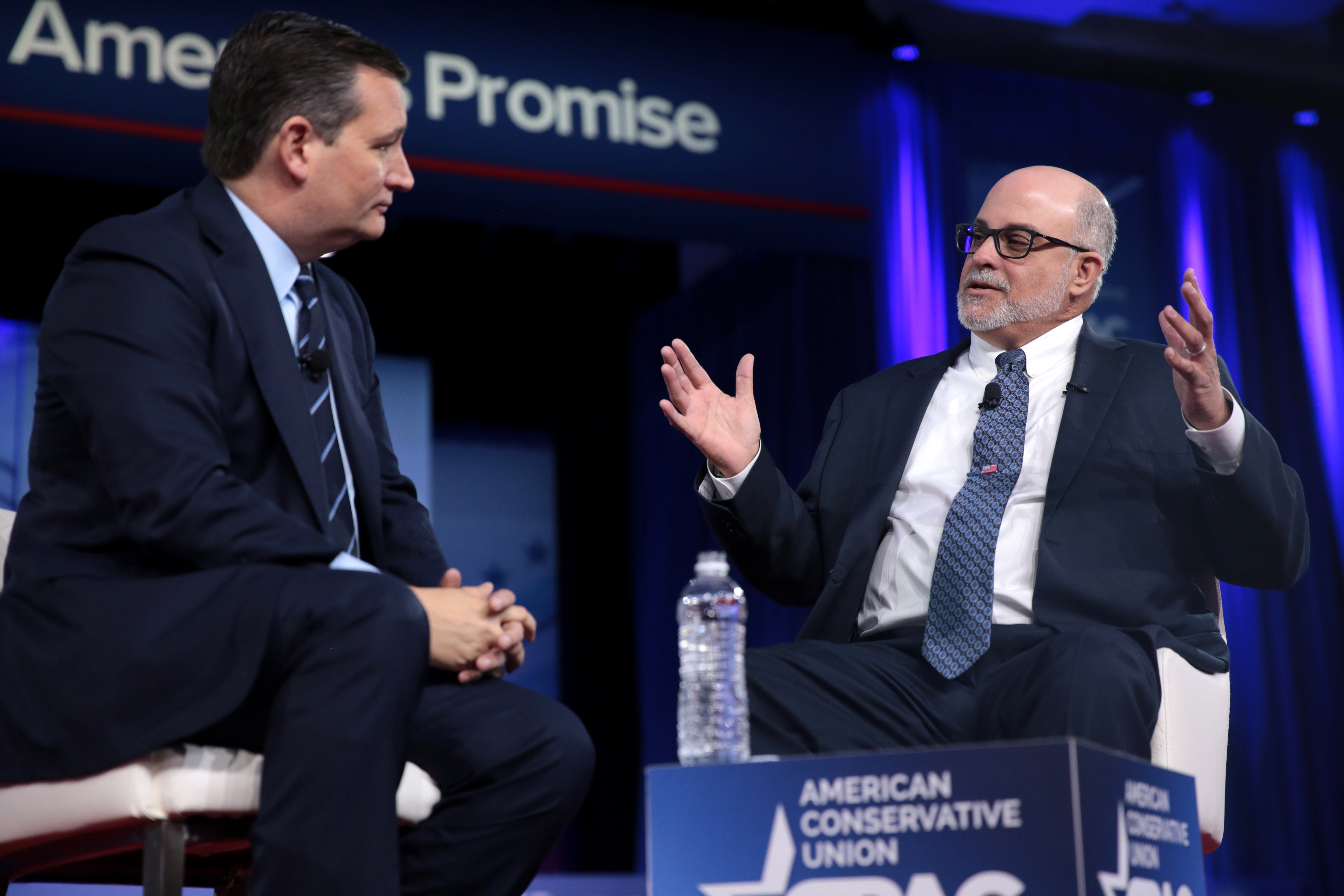 U.S. Senator Ted Cruz of Texas and Mark Levin speaking at the 2017 Conservative Political Action Conference (CPAC) in National Harbor, Maryland.